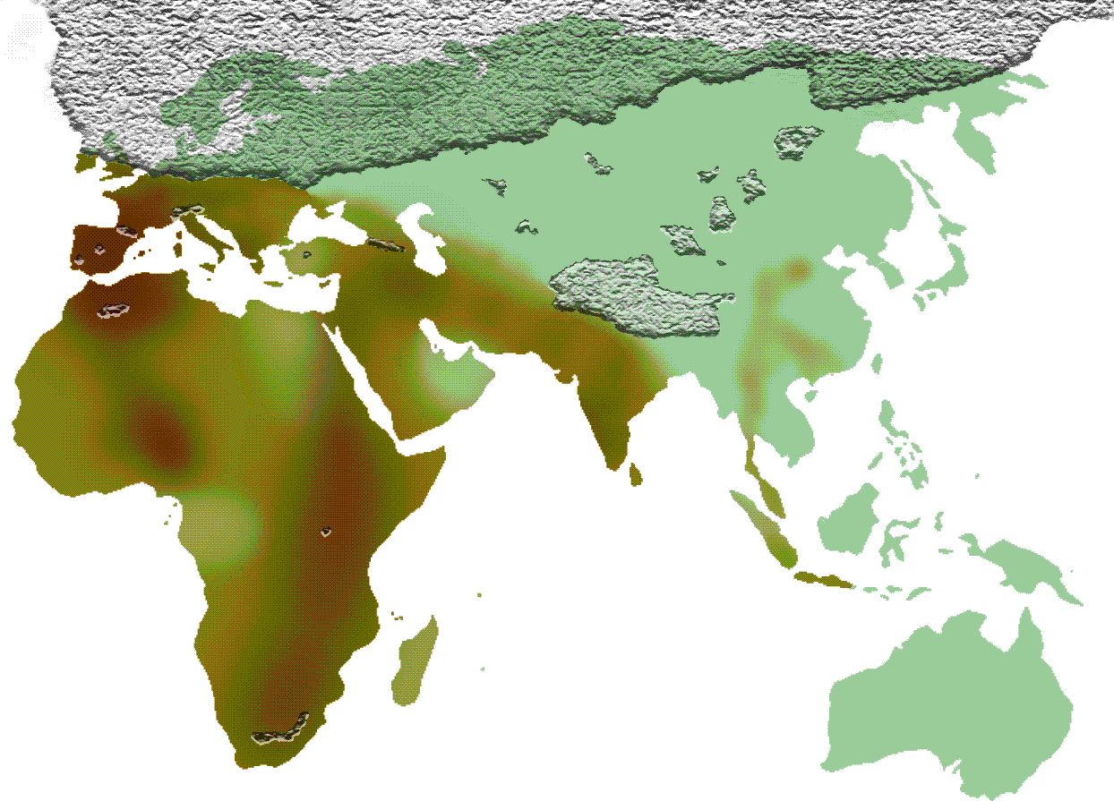 Map of the area where the hand axe cultures are spread out during the Middle Pleistocene (Acheulean)